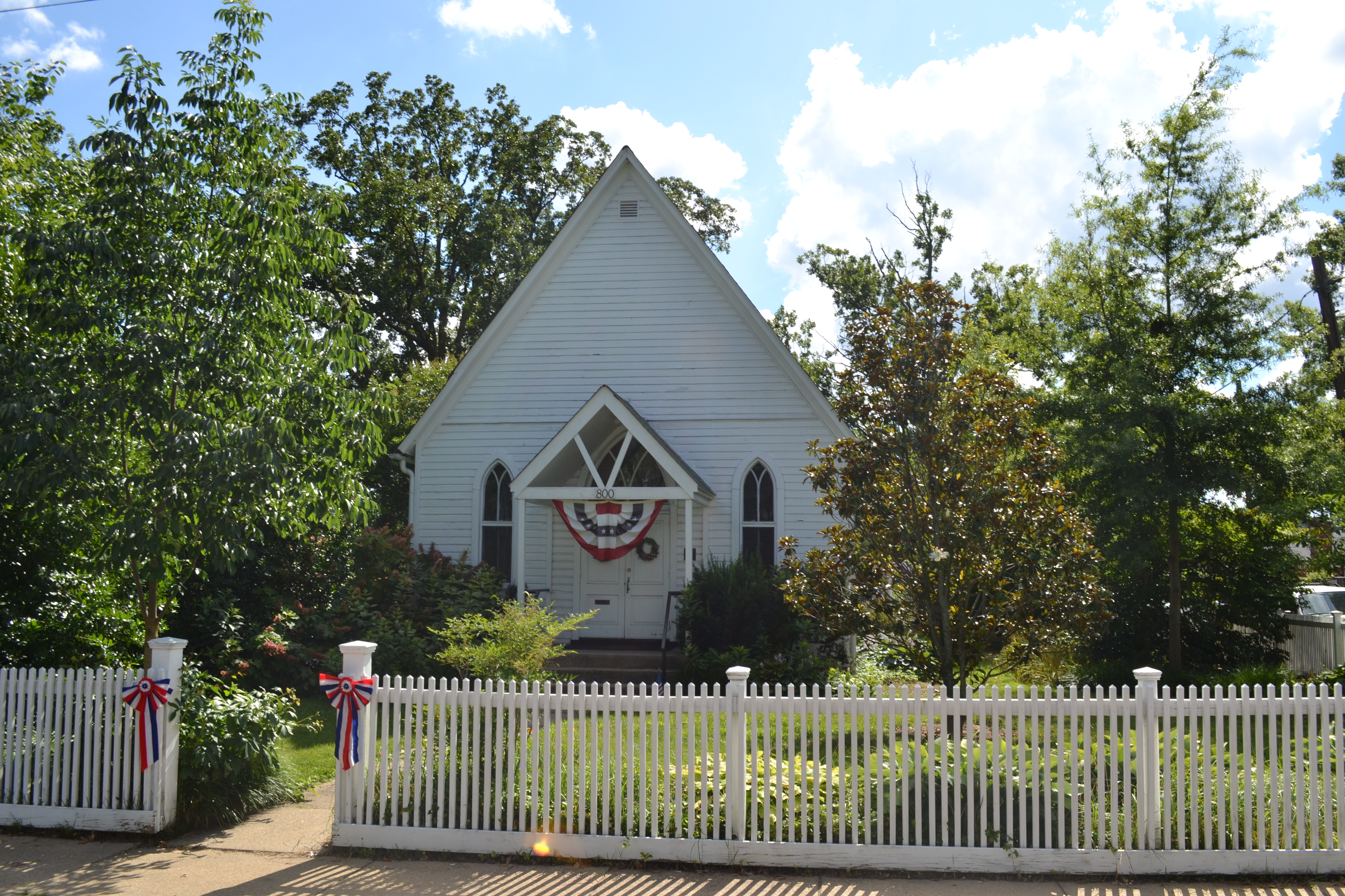 Barcroft Community House